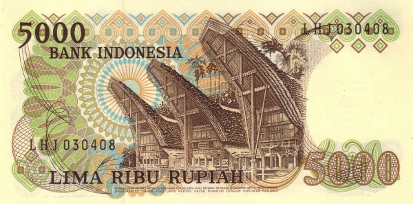 Indonesian currency issued 1976-2000.